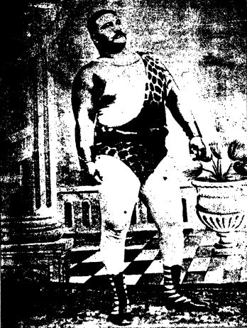 Bhabendra Mohan Saha wearing a costume made of tiger skin. He used to wear this costume while performing his feats.